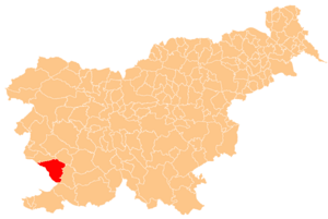 Localization of Sežana in Slovenia. Creator Plp